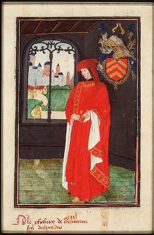 Statuts, Ordonnances et Armorial de l'Ordre de la Toison d'Or (Statutes, Ordonnances and armorial of the Order of the Golden Fleece) Place of origin, date: Southern Netherlands; 1473. Added sections: Southern Netherlands; 1478 or shortly after and 1491 or shortly after Material: Vellum, ff. 86, 249x187 (167x106) mm, 23 lines, littera cursiva (lettre bourguignonne). French. Binding: 18th-century brown leather Decoration: 1 full-page miniature (170x115 mm) with border decoration; 92 miniatures (185/155x120/100 mm); 1 historiated initial (80x90 mm) with border decoration; decorated initials with border decoration (ff., Added section: miniatures ; 4 drawings for miniatures (not finished) Provenance: Presented in 1473 by Gilles Gobet, King of Arms of the Order of the Golden Fleece, to Charles the Bold, Duke of Burgundy and the other Knights during the Chapter of the Order held at Valenciennes; Treasure of the Golden Fleece, Brussls; taken away by the Treasurer C.-F. Humyn (d. 1735) or his daughter C.Ch. de Corte; by legacy to her daughter M.-L. de Corte, wife of Ph.-E. de Poederlé; purchased in 1781 at the Poederlé sale by G.-J- Gérard of Brussels; acquired in 1832 as part of the Gérard collection (no. A 27)